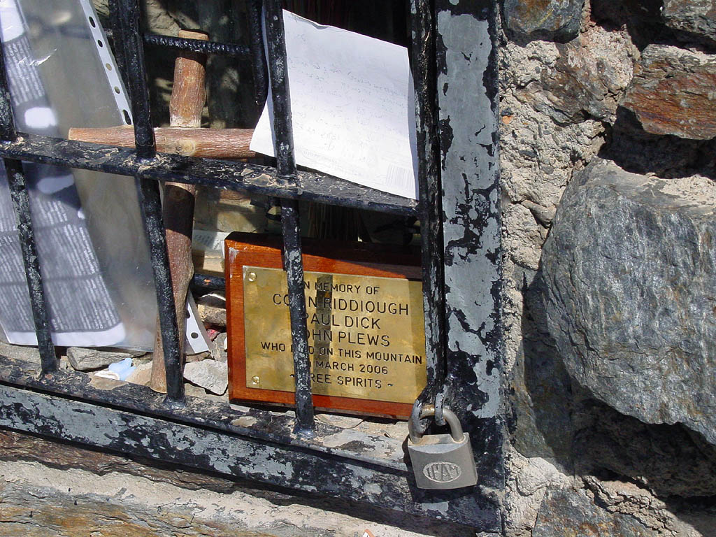 Photograph of the plaque at the summit of Mulhacen dedicated to the three Britons who died nearby in 2006. The text on the plaque reads: "In memory of Colin Riddiough Paul Dick John Plews Who died on this mountain 5th March 2006 ~ Free spirits ~"